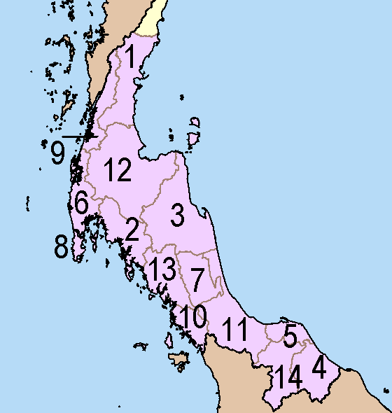 Map of southern Thailand with the provinces numbered Chumphon Krabi Nakhon Si Thammarat Narathiwat Pattani Phang Nga Phattalung Phuket Ranong Satun Songkhla Surat Thani Trang Yala